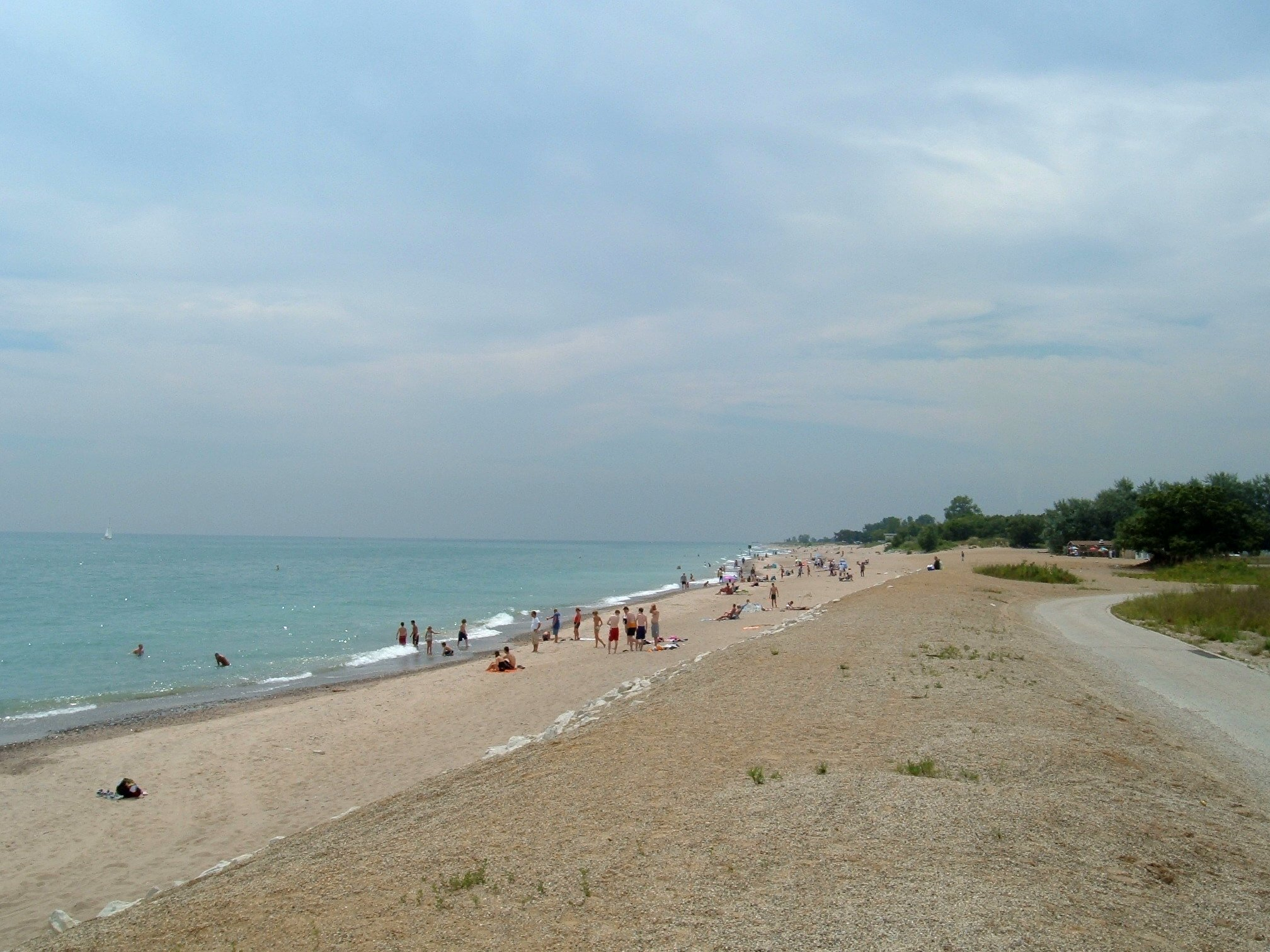 Main beach at southern unit of Illinois Beach State Park. Photo taken in 2006 by Dave Piasecki